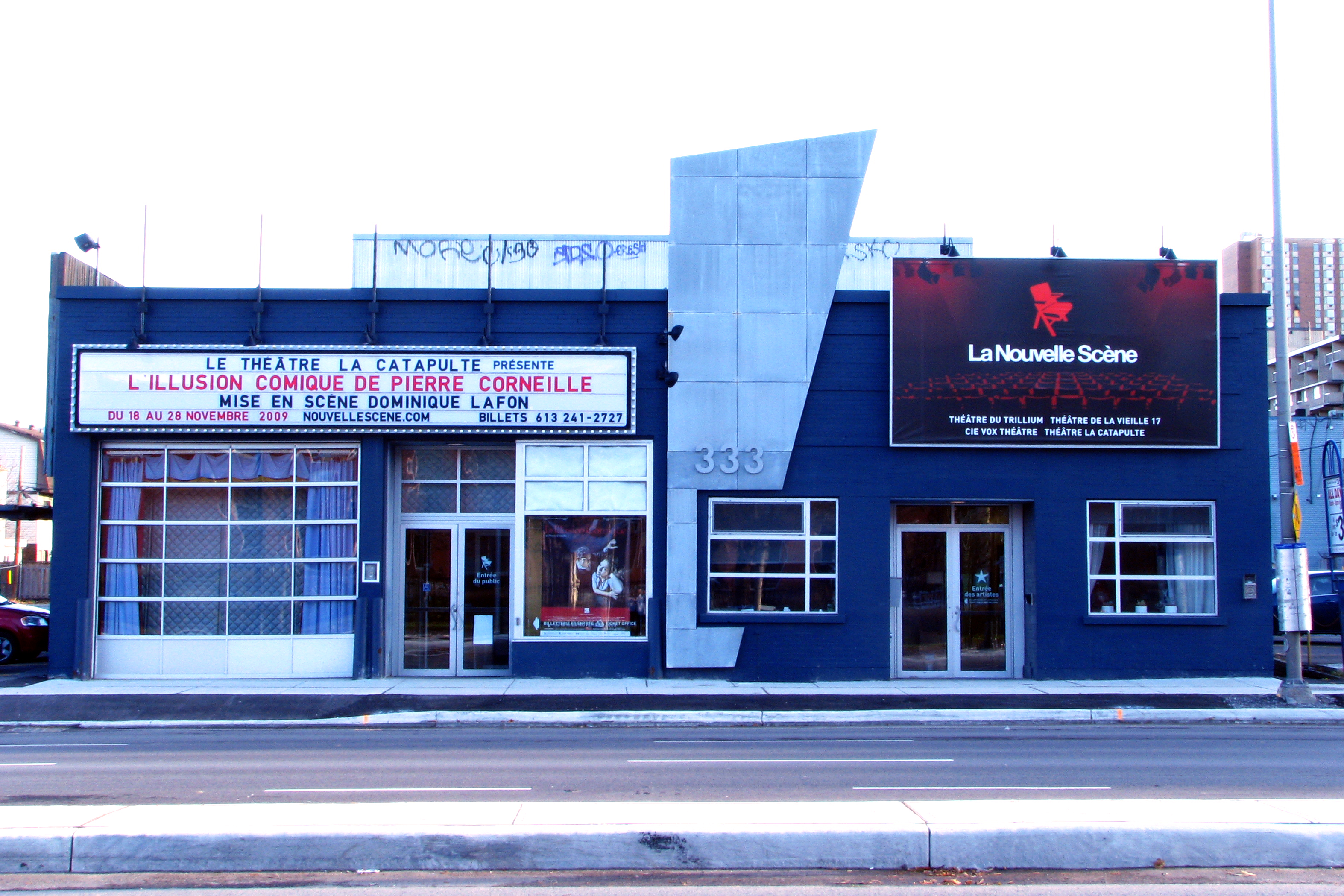 The front of the theatre La Nouvelle Scène, located at the 333 King-Edward Avenue in Ottawa, ON.